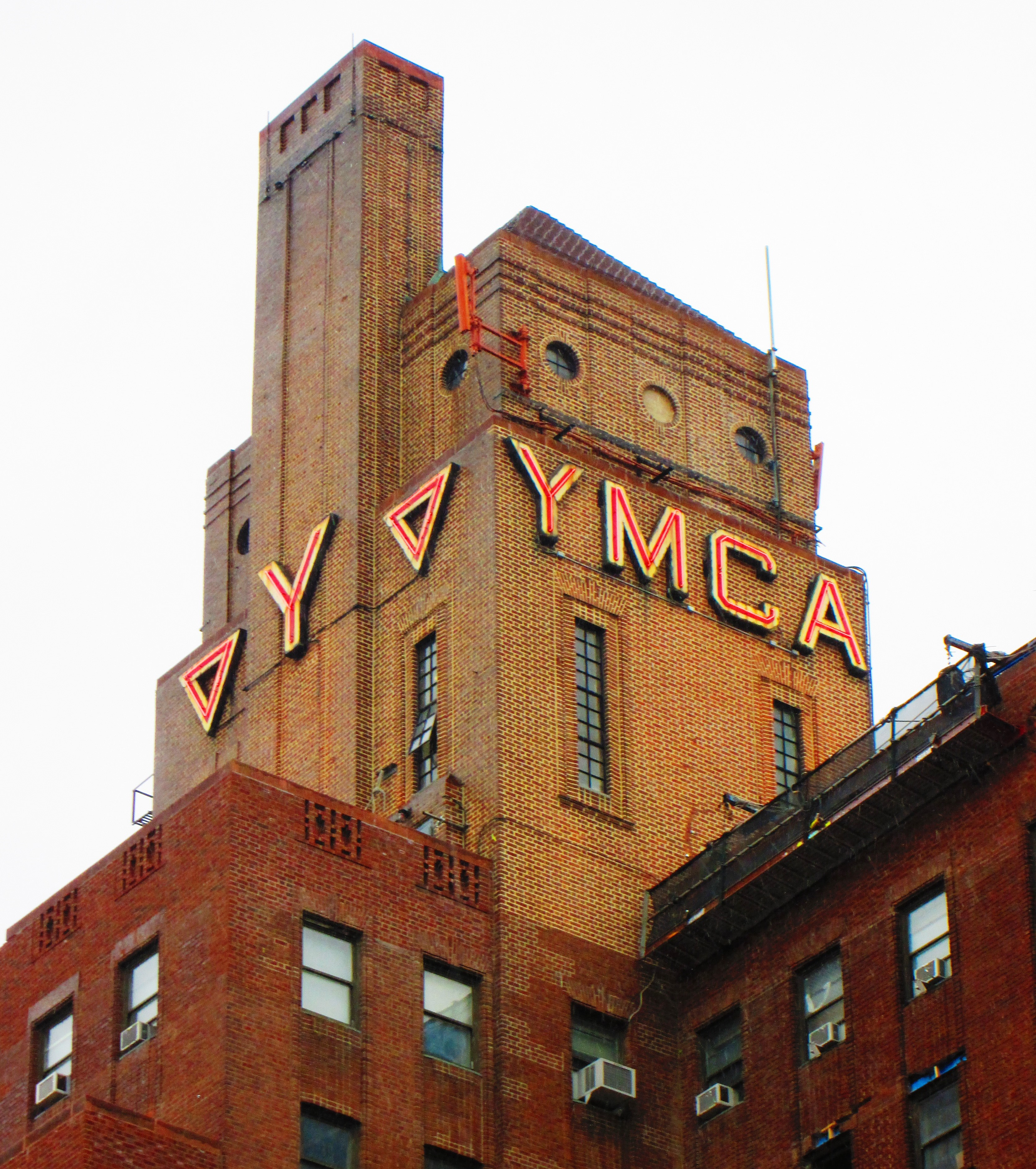 The Harlem YMCA, also known as the Claude McKay Residence, is located at 180 West 135th Street between Lenox Avenue and Adam Clayton Powell Jr. Boulevard in the Harlem neighborhood of Manhattan, New York City. Built in 1931-32, the red-brown brick building with neo-Georgian details was designed by the Architectural Bureau of the National Council of the YMCA, with James C. Mackenzie, Jr. as the architect in charge. (Source: NYC Guide to NYC Landmarks (4th ed.))